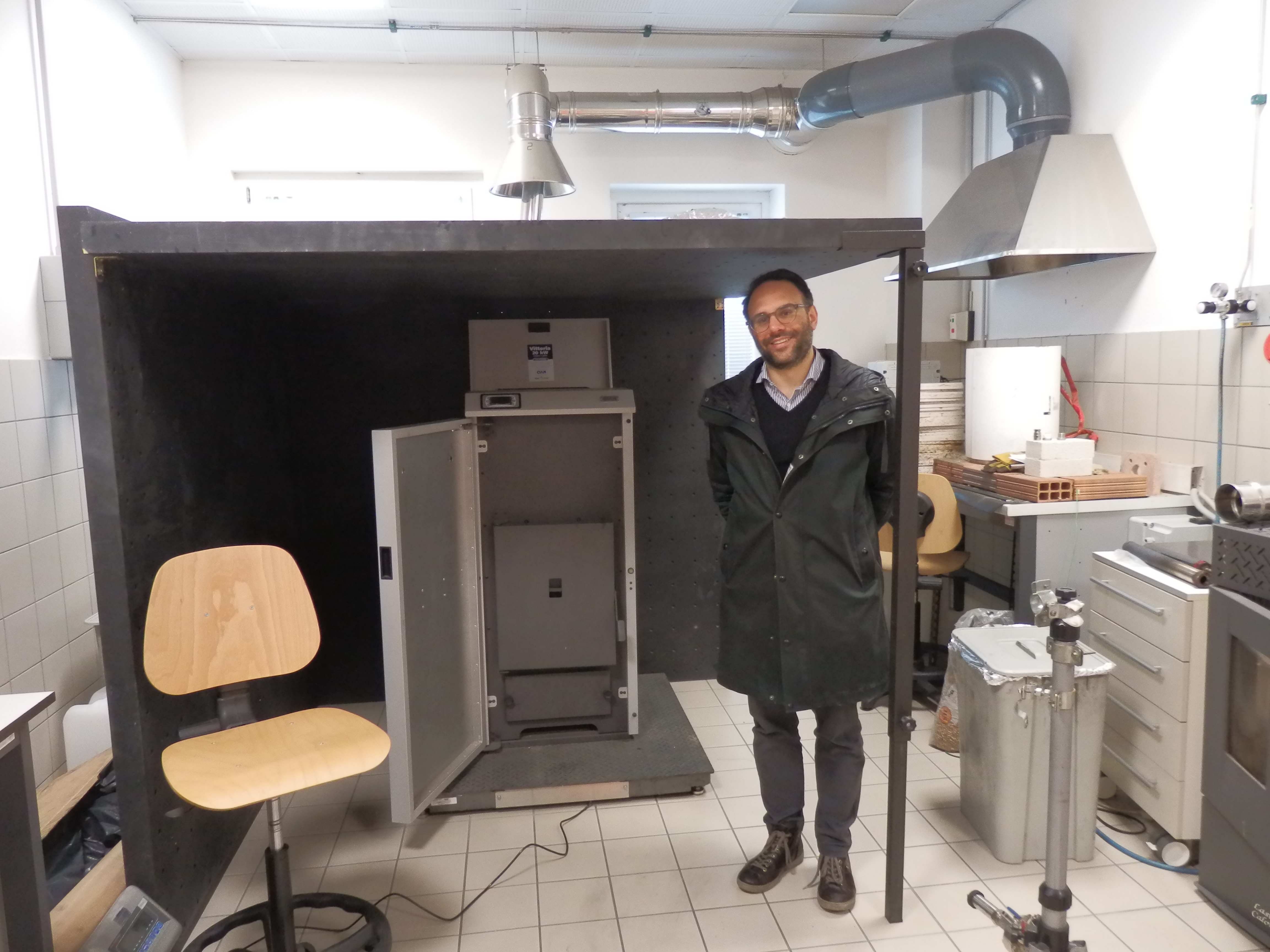 Dr Pietro Bartocci Biomass Research Centre Università degli Studi di Perugia Perugia with a pellet stove, model VITTORIA EVO 20 kW